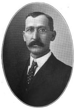 Cyrus Durey, Congressman from New York